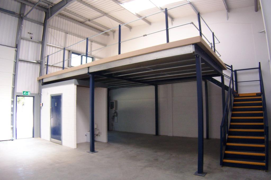 A typical mezzanine floor in the UK showing steel beams and columns with a chipboard deck incorporating a twin flight staircase.